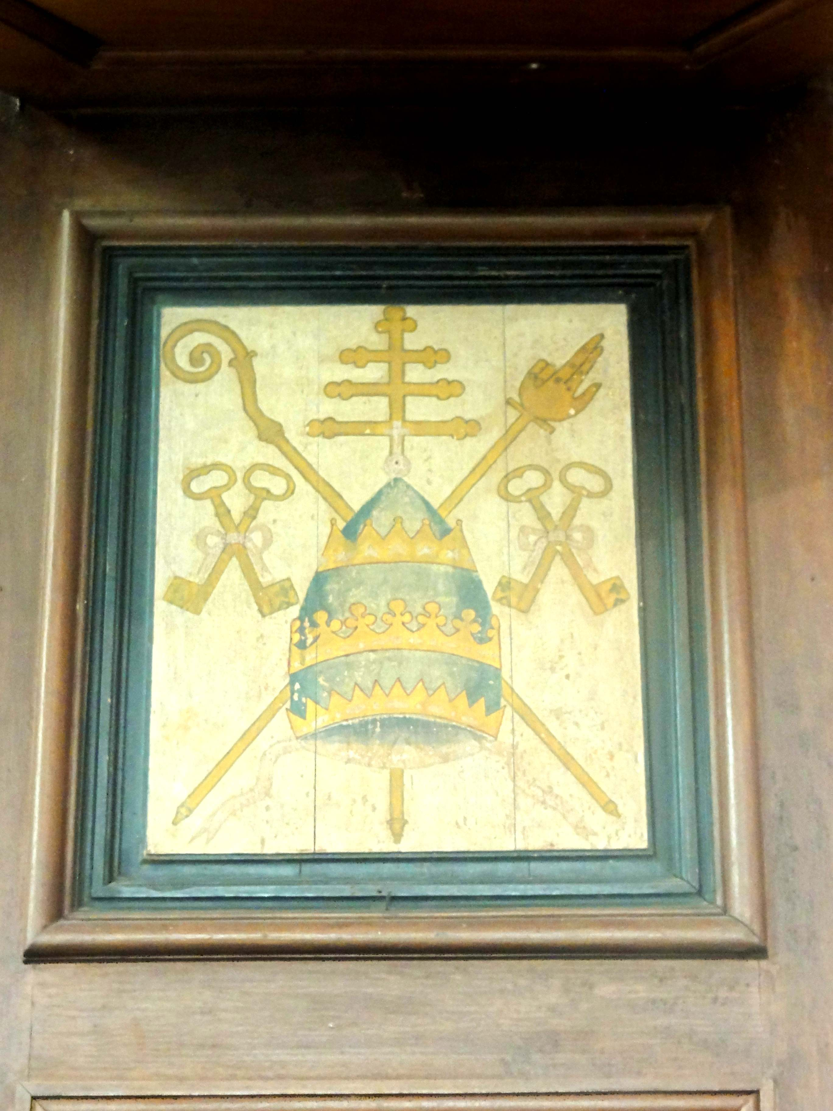 Papal emblem or papal coat of arms on the back rest of the chair.